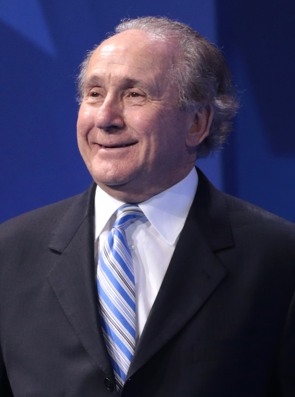 Michael Reagan speaking at the 2017 CPAC in National Harbor, Maryland.